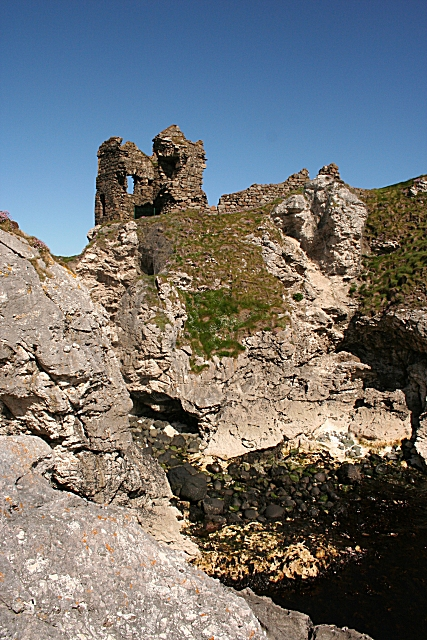 Kinbane Castle A jagged tooth of masonry tops the white cliffs of Kinbane Head.